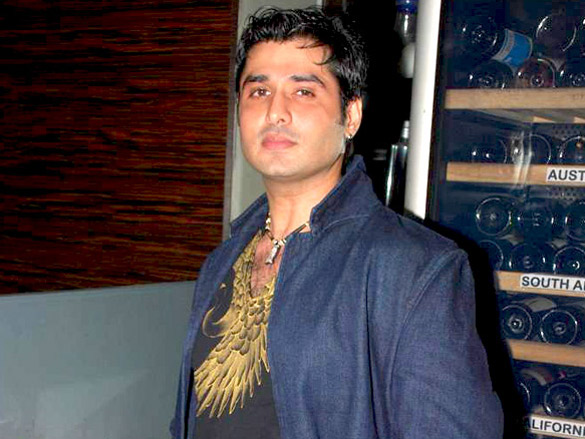 Pankit Thakker at Star One's 'Dill Mill Gayye' party